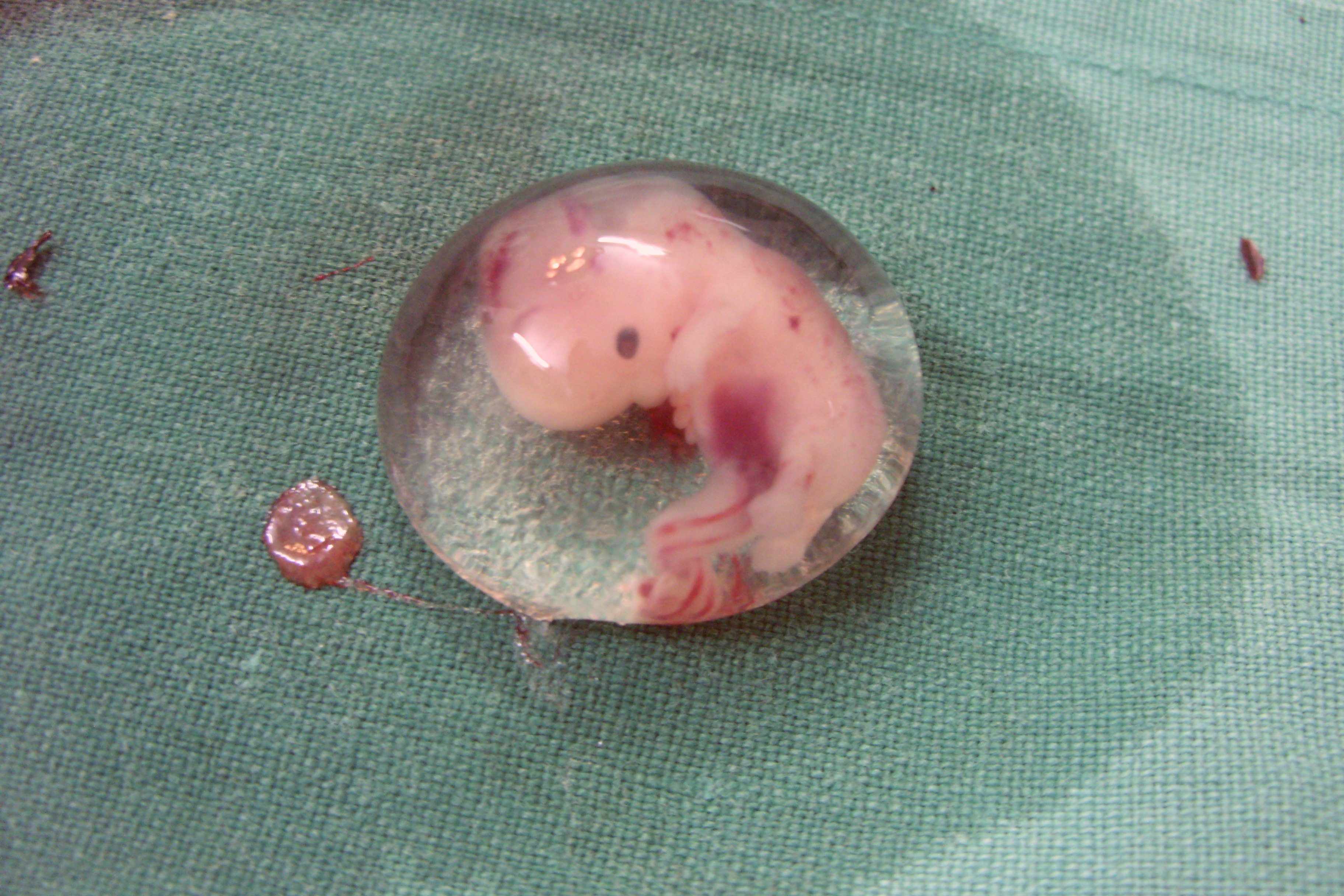 An intact human embryo at 6-week embryonic age (or 8-week gestational age), found in a ruptured ectopic pregnancy case.